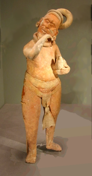 Jaina Island figurine of a drunkard, 400 - 800 AD , AD 400 - 800 according to Born of Clay, from the National Museum of the American Indian. Schele & Miller have dated this to AD 700 - 900. Height: 15 in.